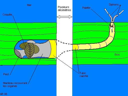 Arrangement of a shipworm in a piece of wood.